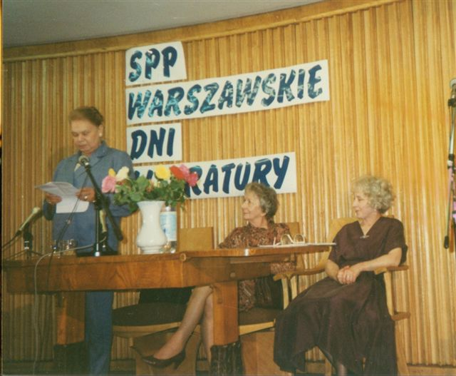 Julia Hartwig (1921-2017), Polish writer, Wisława Szymborska (1923-2012), Polish writer and Anna Polony (b. 1939), Polish actor and theater director